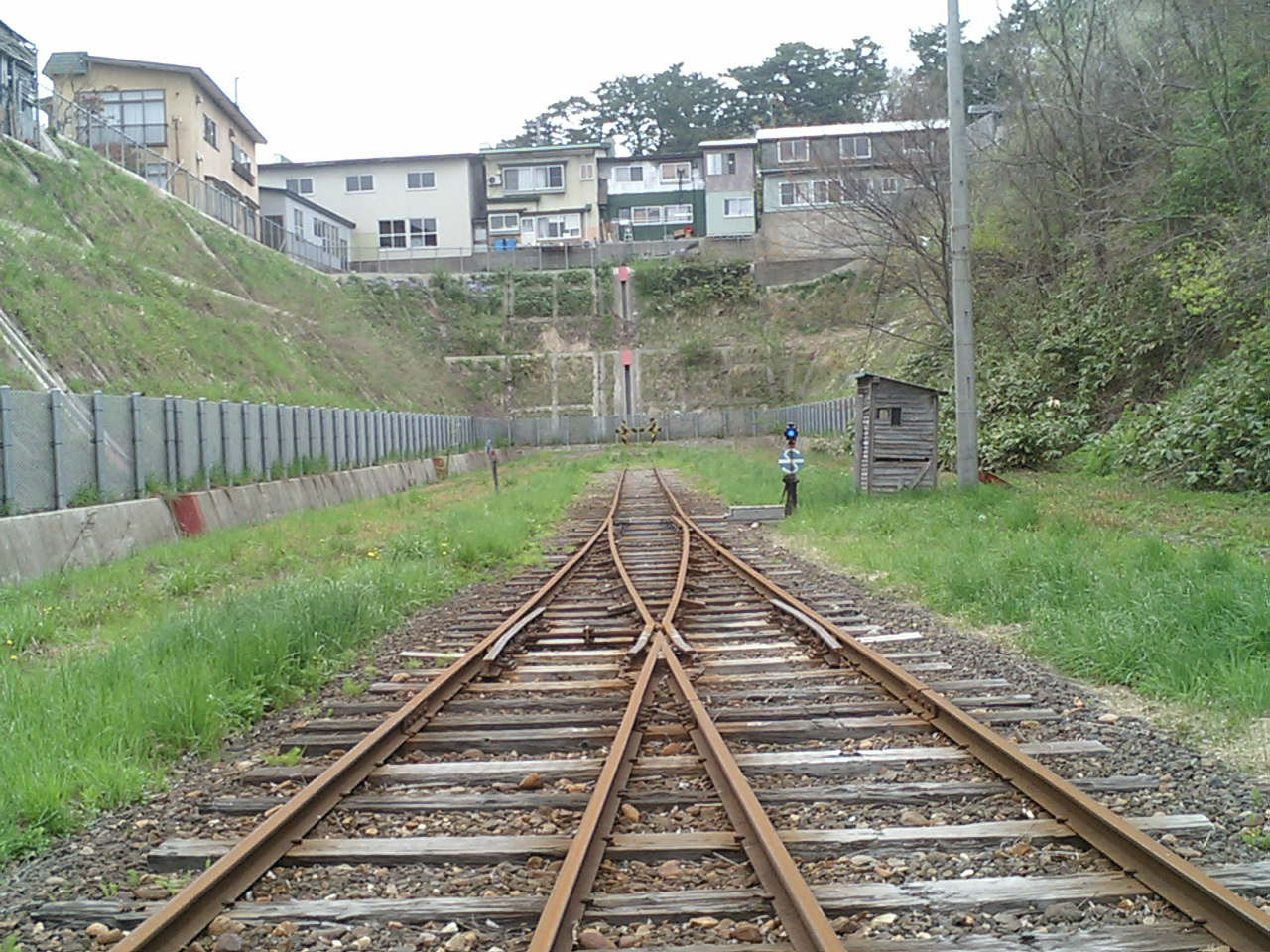 End of the Tsugaru Railway line track at Tsugaru-Nakasato Station